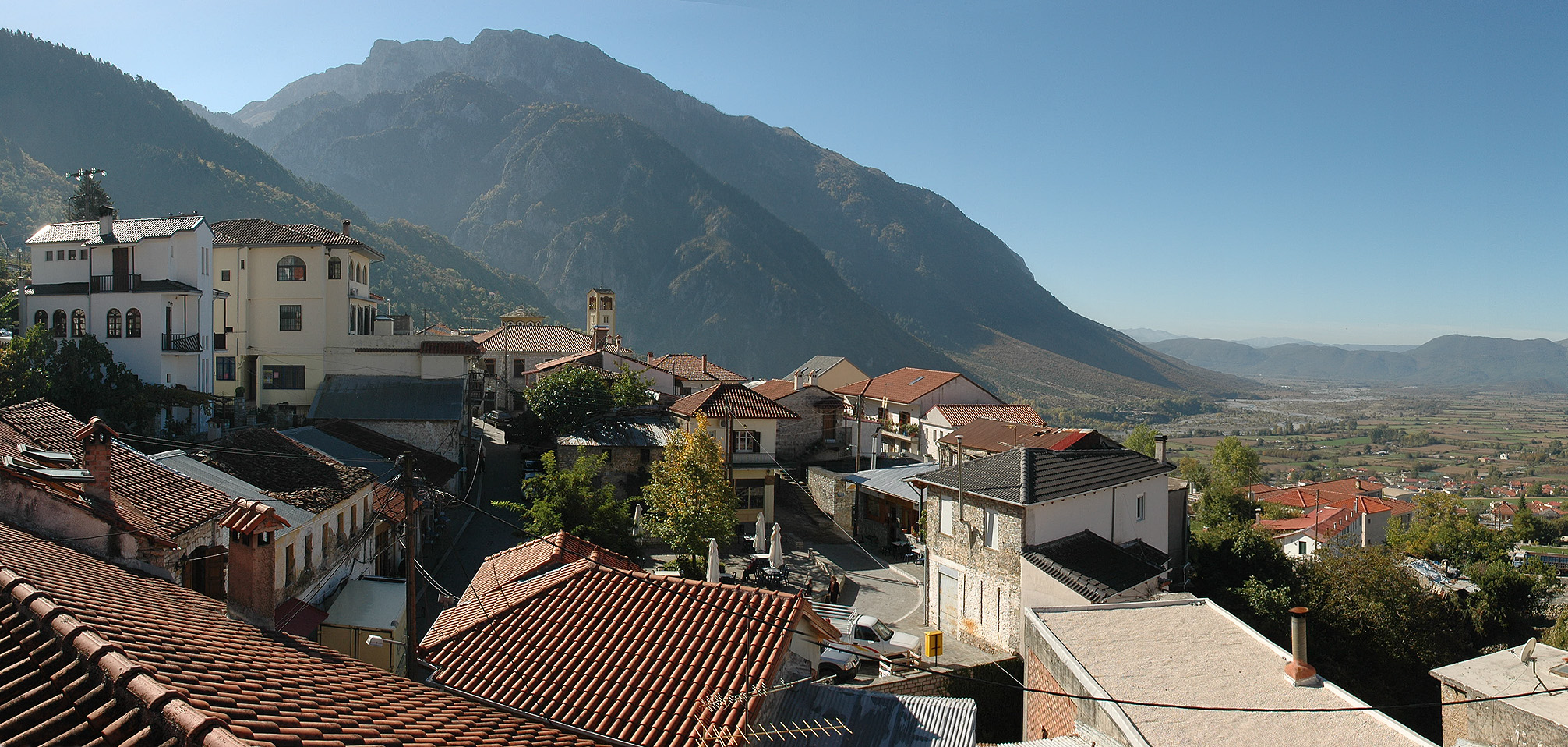 The center of Konitsa. The mountain in the background is Timfi. On the right is the valley of the Aoos river. A panorama of two photos taken by Onno Zweers.